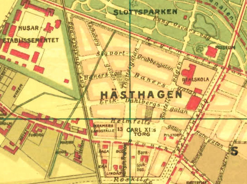 Hästhagen 1914